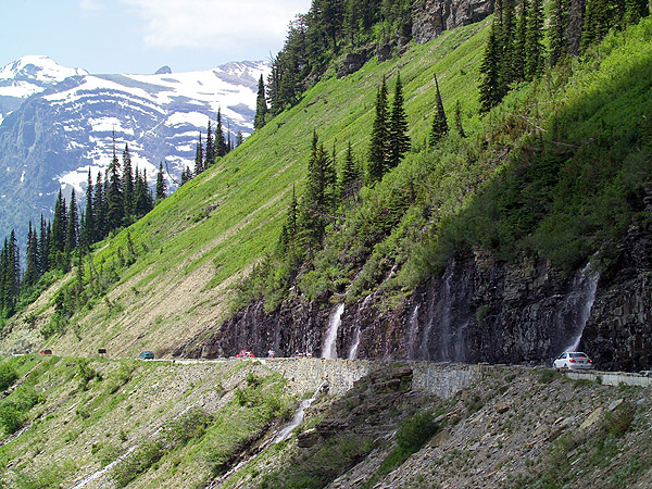 "Weeping Wall" on Going-to-the-Sun Road, north of Logan Pass Glacier National Park, Montana, USA.